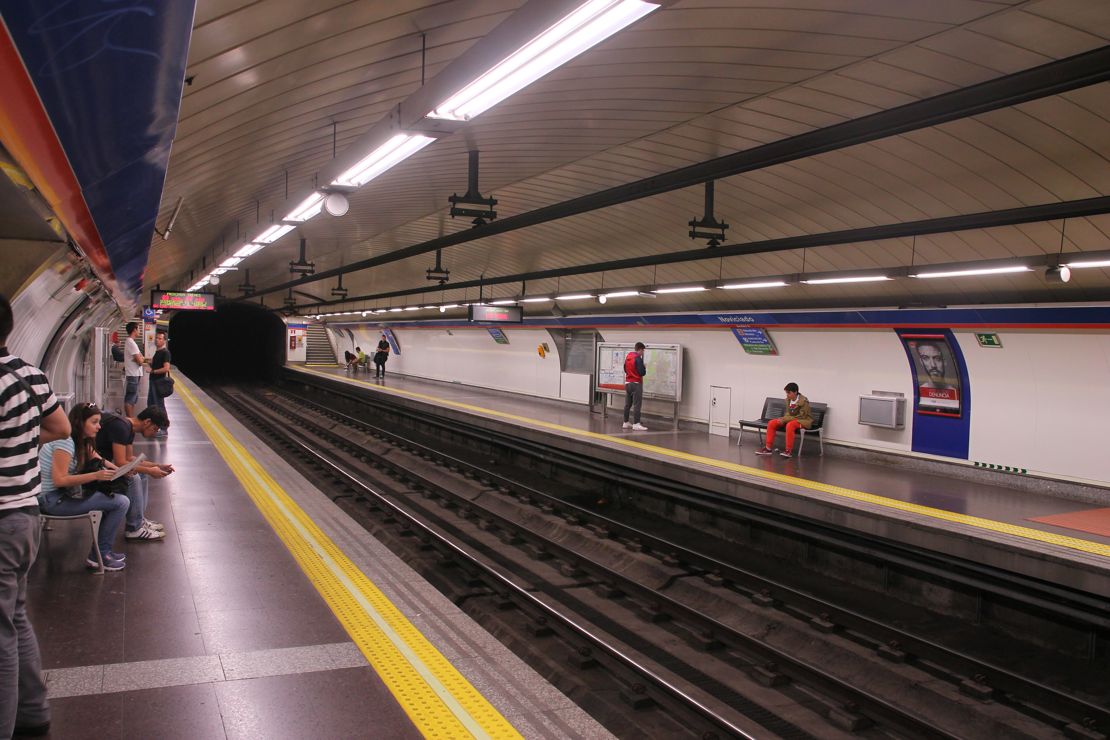 Estación de Noviciado